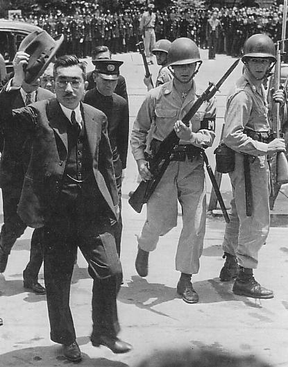 Emperor Showa's visit to Kobe in 1947